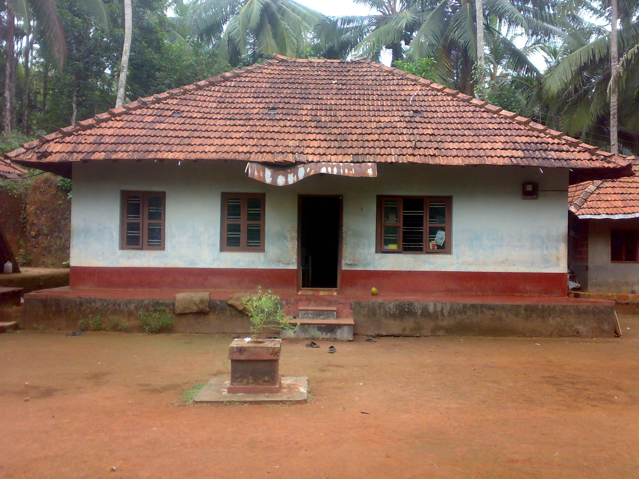 Mangaluru tiles home, ಹೆಂಚಿನ ಮನೆ, ಓಡುತಾ ಇಲ್ಲ್